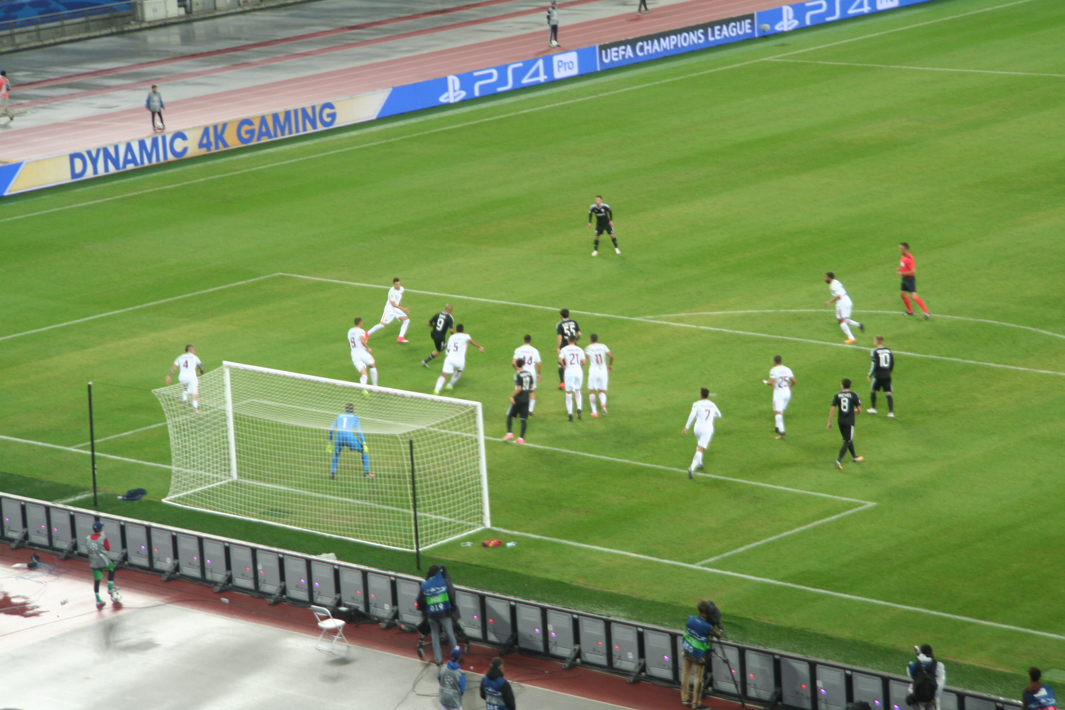 Karabakh - AS Roma, 27 September 2017